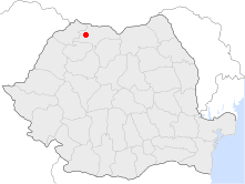 Location of Baia Mare in Romania.